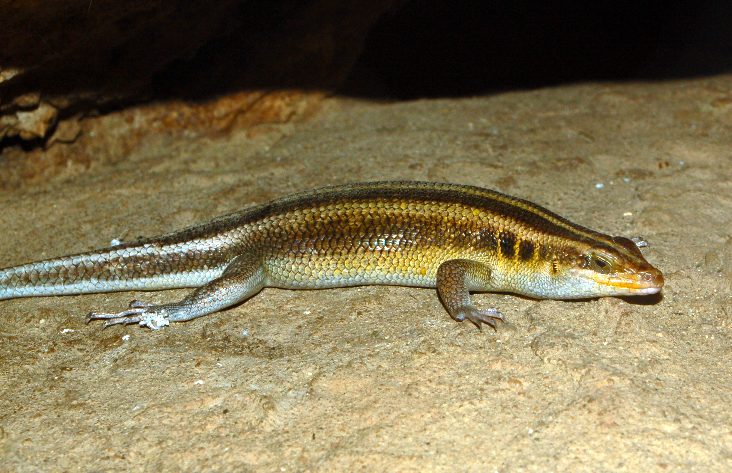 Trachylepis margaritifera at the Prague Zoo